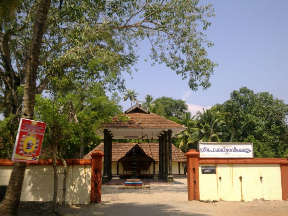 Pallana sree porkali devi temple